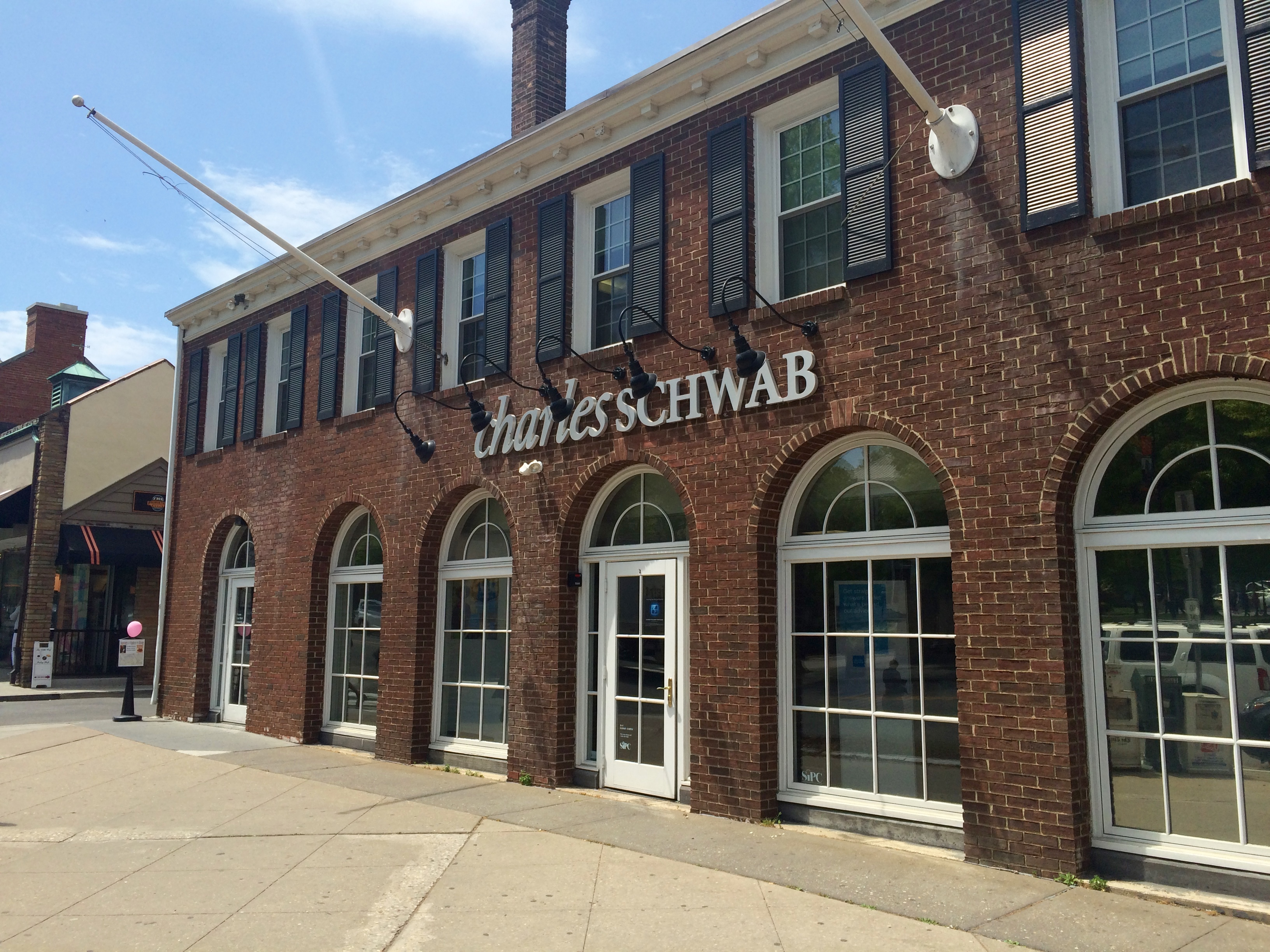 Charles Schwab on Nassau Street in Princeton, New Jersey